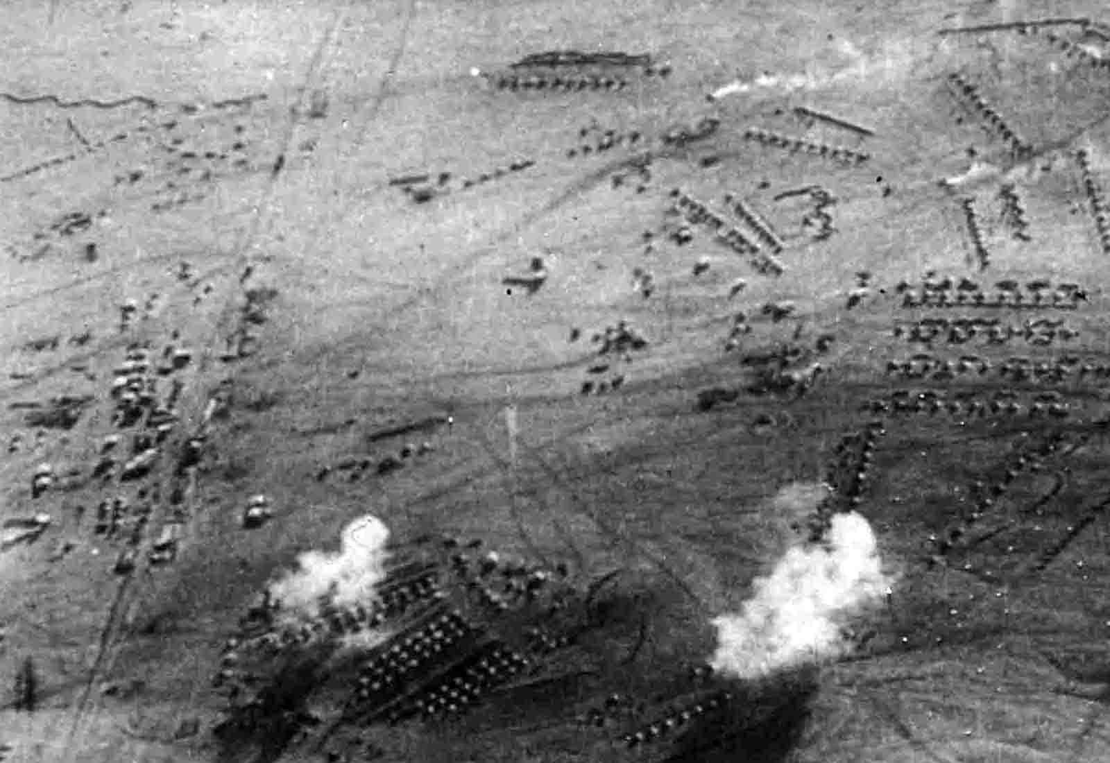 Air raid of a South African military camp at the railway station Tschaukaib (German Southwest Africa), by k. u. k. Lieutenant Fiedler, 17 Dec 1914